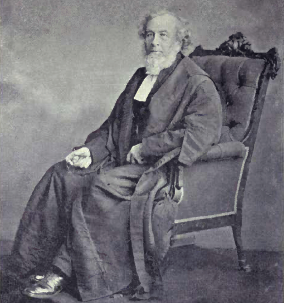 Adam Wilson Source: The Canadian album : men of Canada; or, Success by example, in religion, patriotism, business, law, medicine, education and agriculture; containing portraits of some of Canada's chief business men, statesmen, farmers, men of the learned professions, and others; also, an authentic sketch of their lives; object lessons for the present generation and examples to posterity (Volume 4) (1891-1896) Creator:Cochrane, William, 1831-1898 Creator:Hopkins, J. Castell (John Castell), 1864-1923 Publisher:Brantford, Ont. : Bradley, Garretson & Co. Date:1891-1896